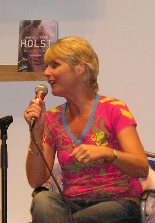 Danish author, Hanne-Vibeke Holst, during the 2006 Gothenburg Bookfair